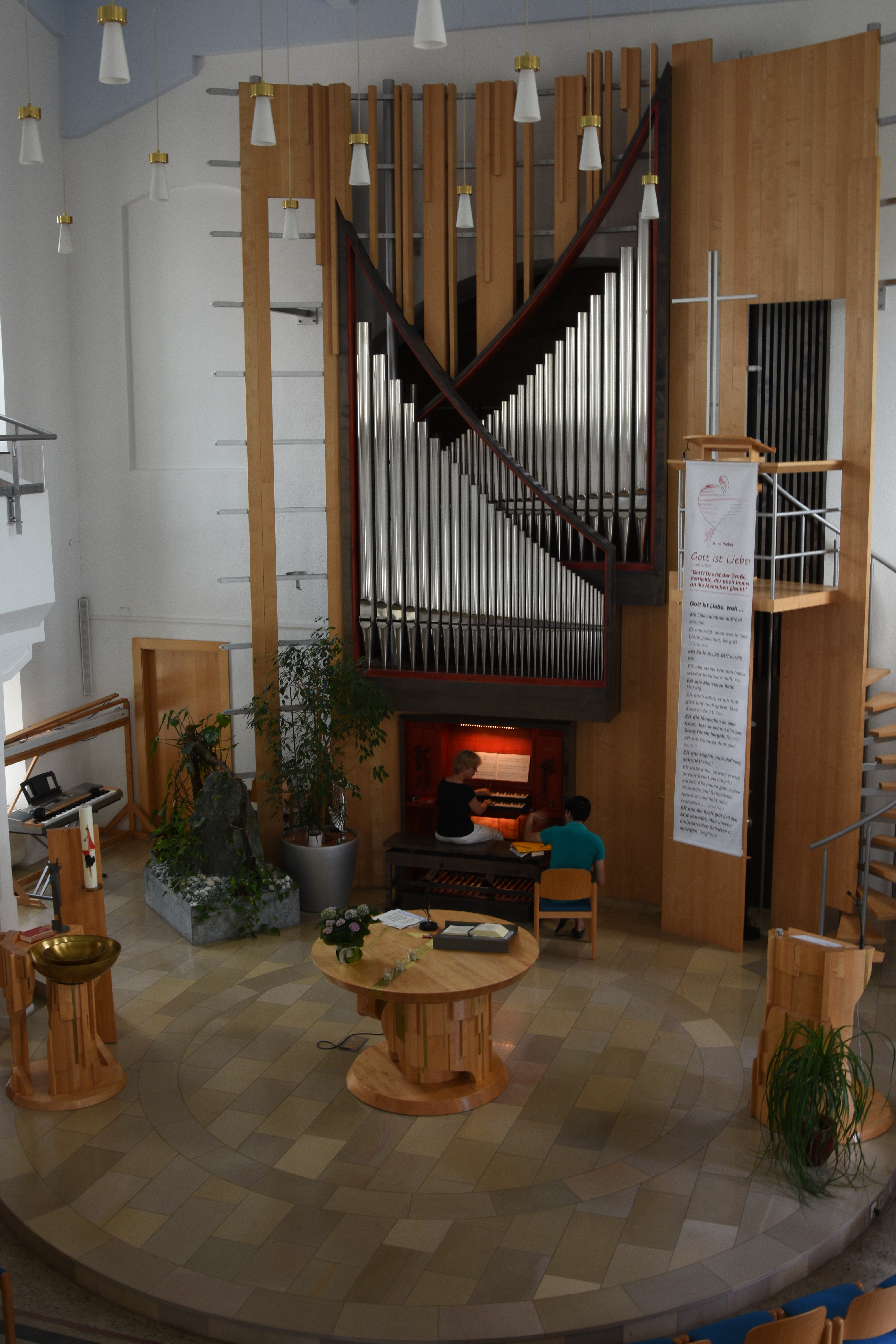 Evangelische Pfarrkirche Oberwart A. B.